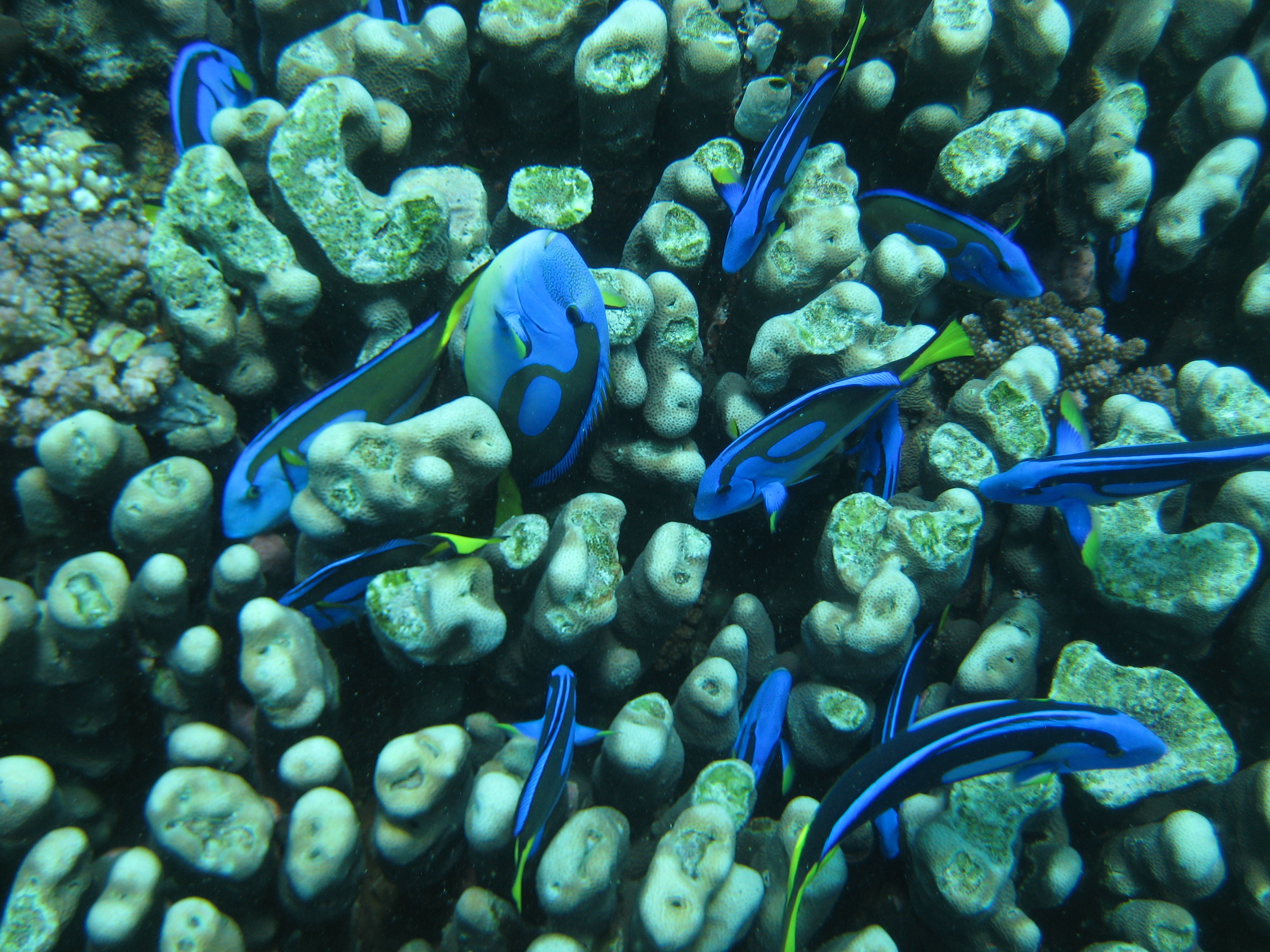 Diving, Pemba, Tanzania